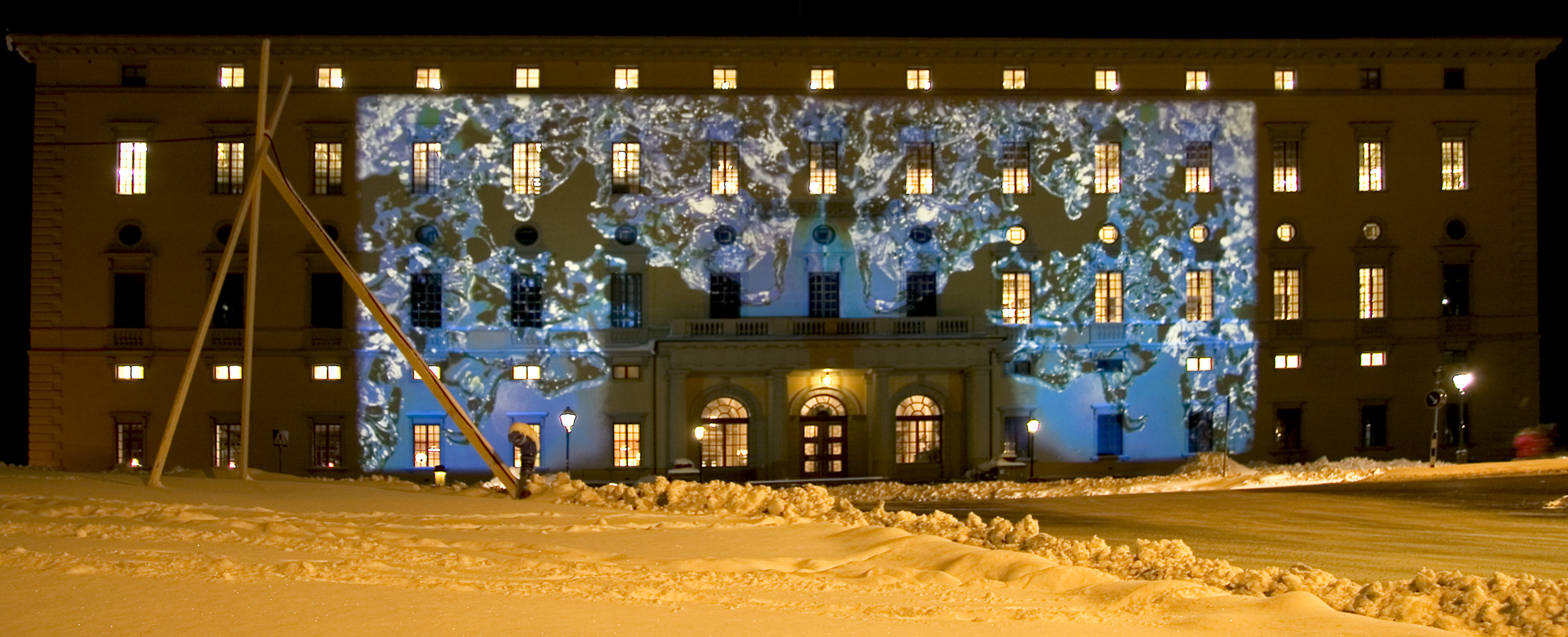 Carolina Rediviva in Uppsala, Sweden during the light festival Allt ljus på Uppsala in november 2008.